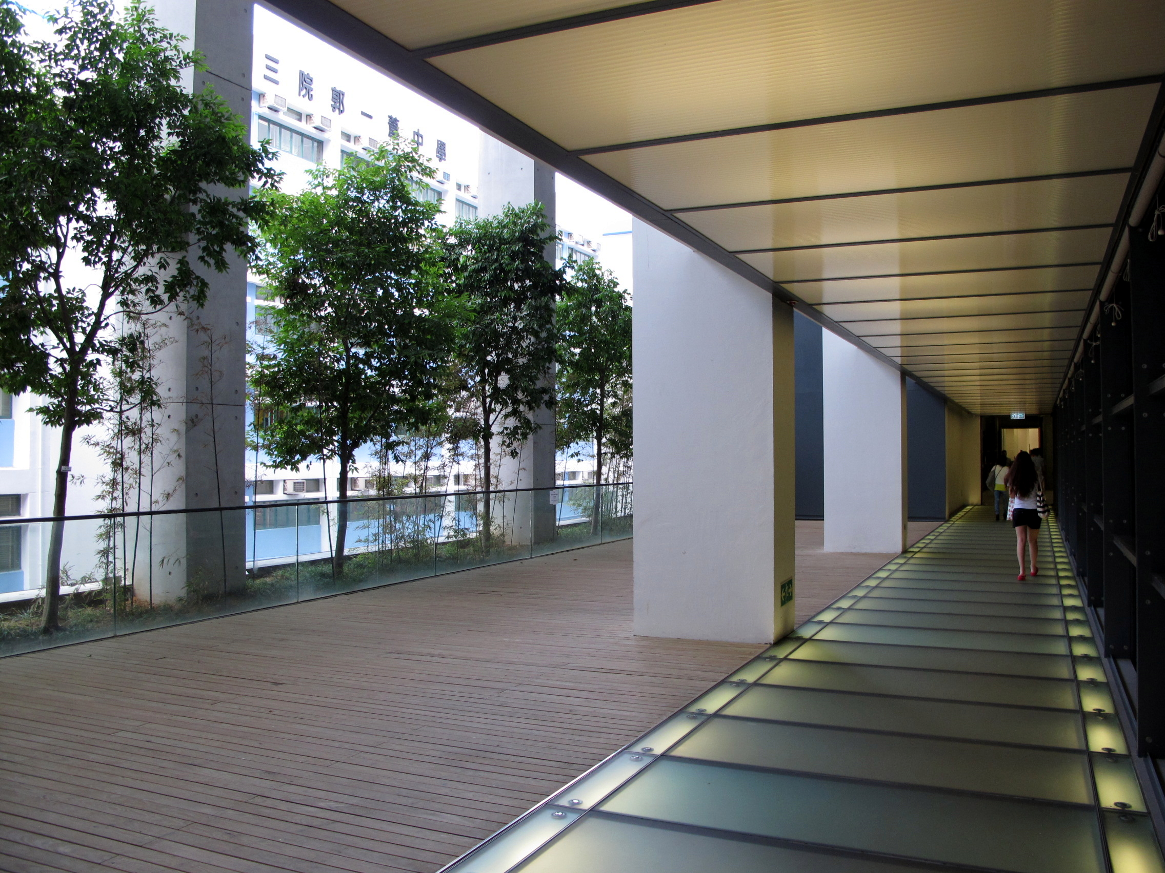 Ping Shan Tin Shui Wai Leisure and Cultural Building Podium Access